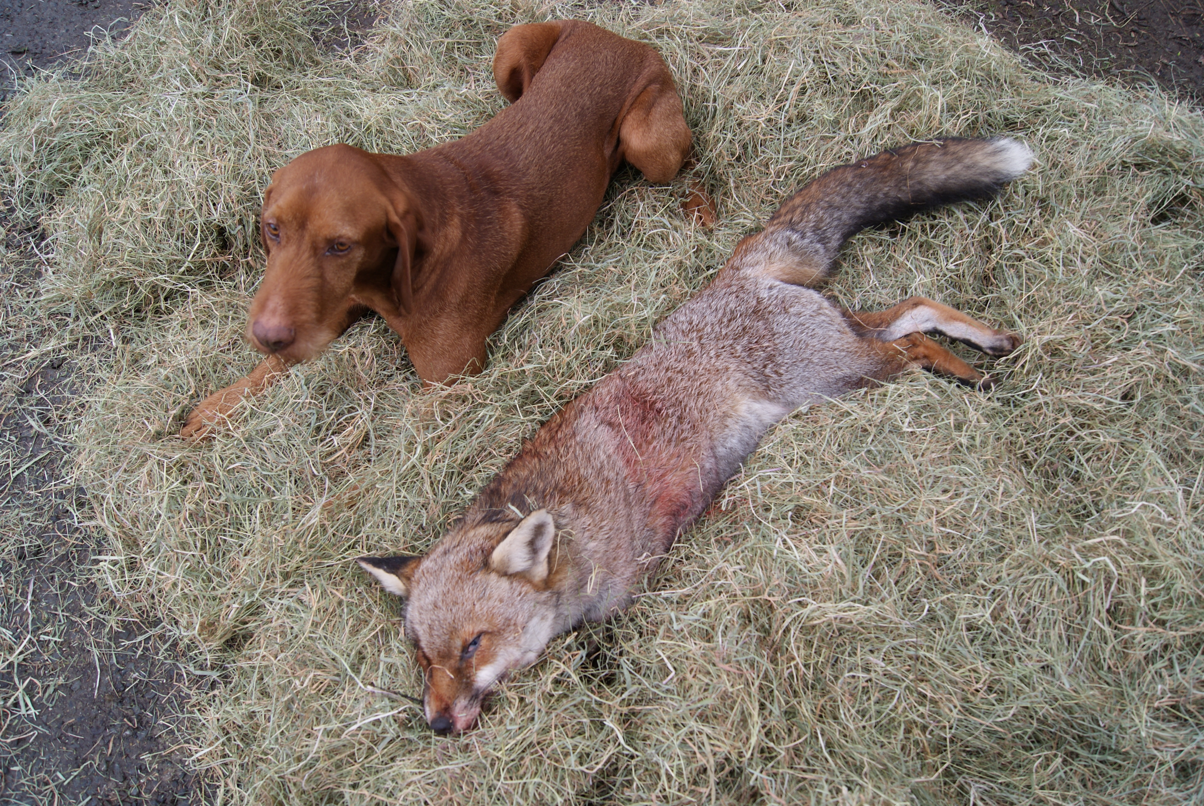 Britain's new biggest fox next to ordinary sized foxes, shot by Roy Lupton near East Grinstead in Kent. Next to a Bavarian mountain hound for scale